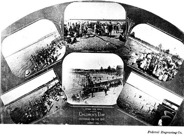 Children's Day, (1904) Britannia-On-The-Bay, Ottawa Free Press, Federal Engraving Co.